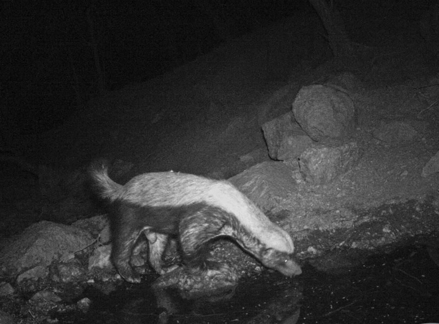 Camera Trap image of Indian Honey Badger Drinking Water from natural stream in forests of North Gujarat. This is probably first photographic record/evidence of honey badger/ratel/gorkhodiyu from North Gujarat in February 2017